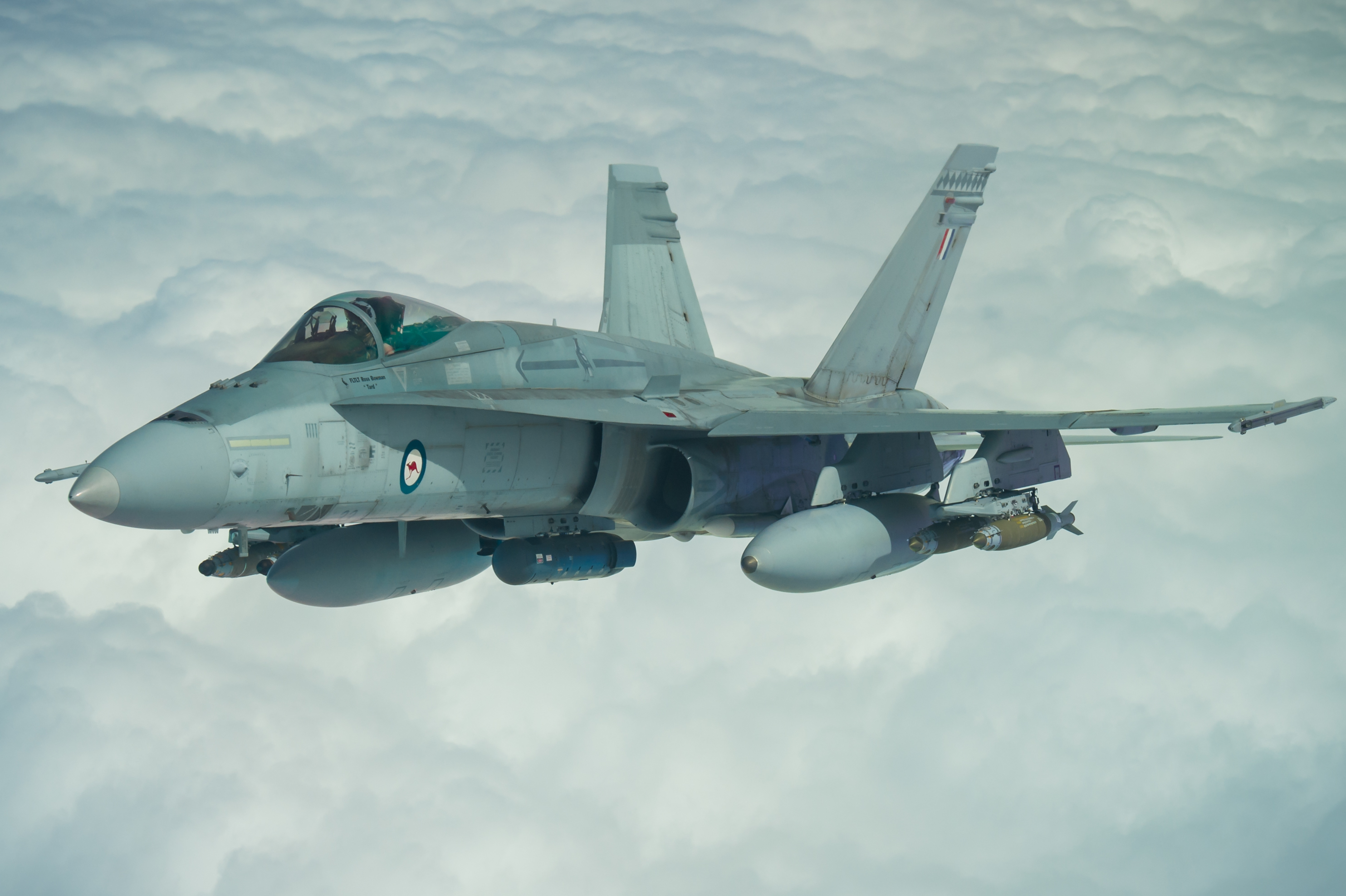 A Royal Australian Air Force F/A-18A Hornet receives fuel from a U.S. Air Force KC-10 Extender while flying a mission in support of Operation Okra over Iraq, March 22, 2017. The RAAF is supporting Combined Joint Task Force-Operation Inherent Resolve through Operation Okra. Since operations commenced in 2014, the F/A-18A Hornets and F/A-18F Super Hornets have flown more than 12,000 hours during more than 2,000 sorties and delivered more than 1,600 munitions. (U.S. Air Force photo/Senior Airman Tyler Woodward)